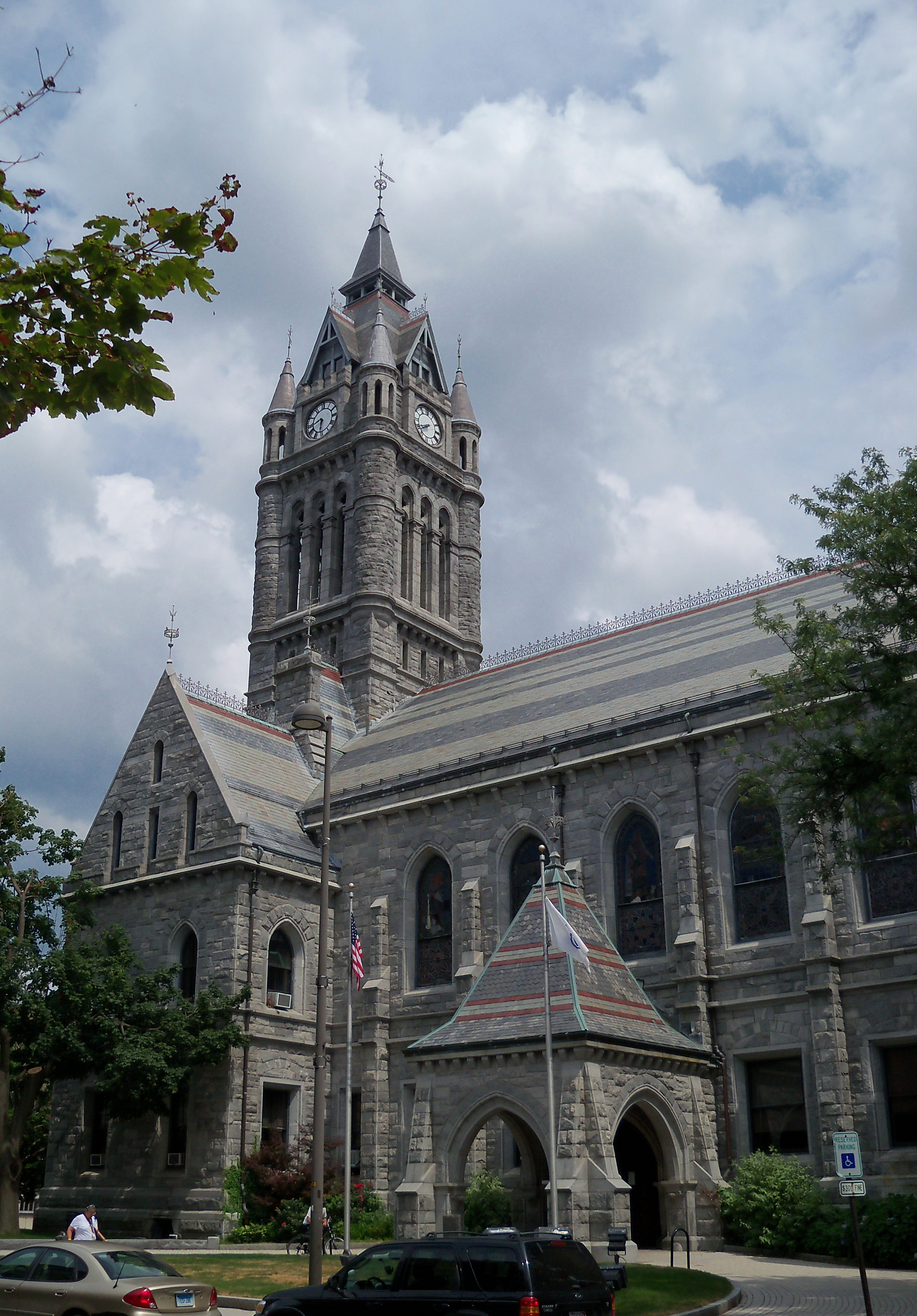 City Hall in Holyoke, Massachusetts, USA.